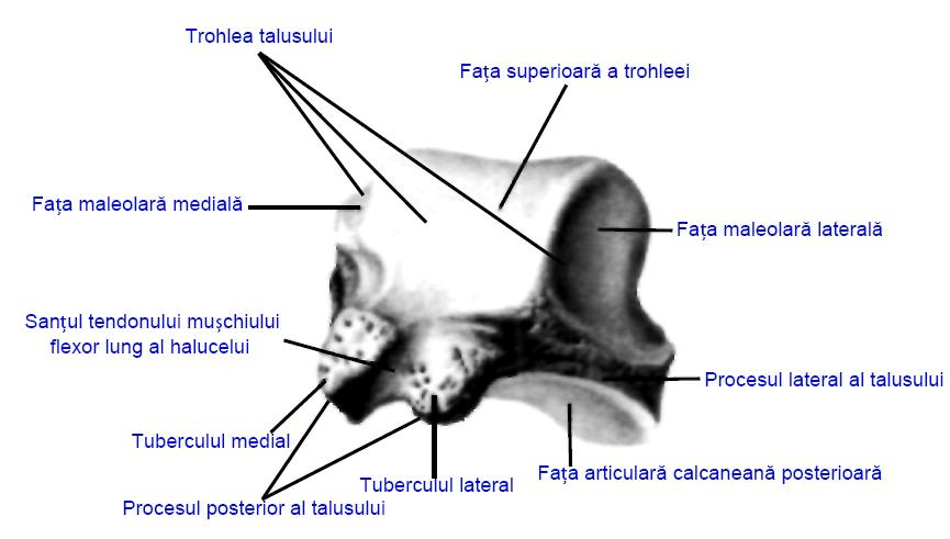 Talus, posterior face